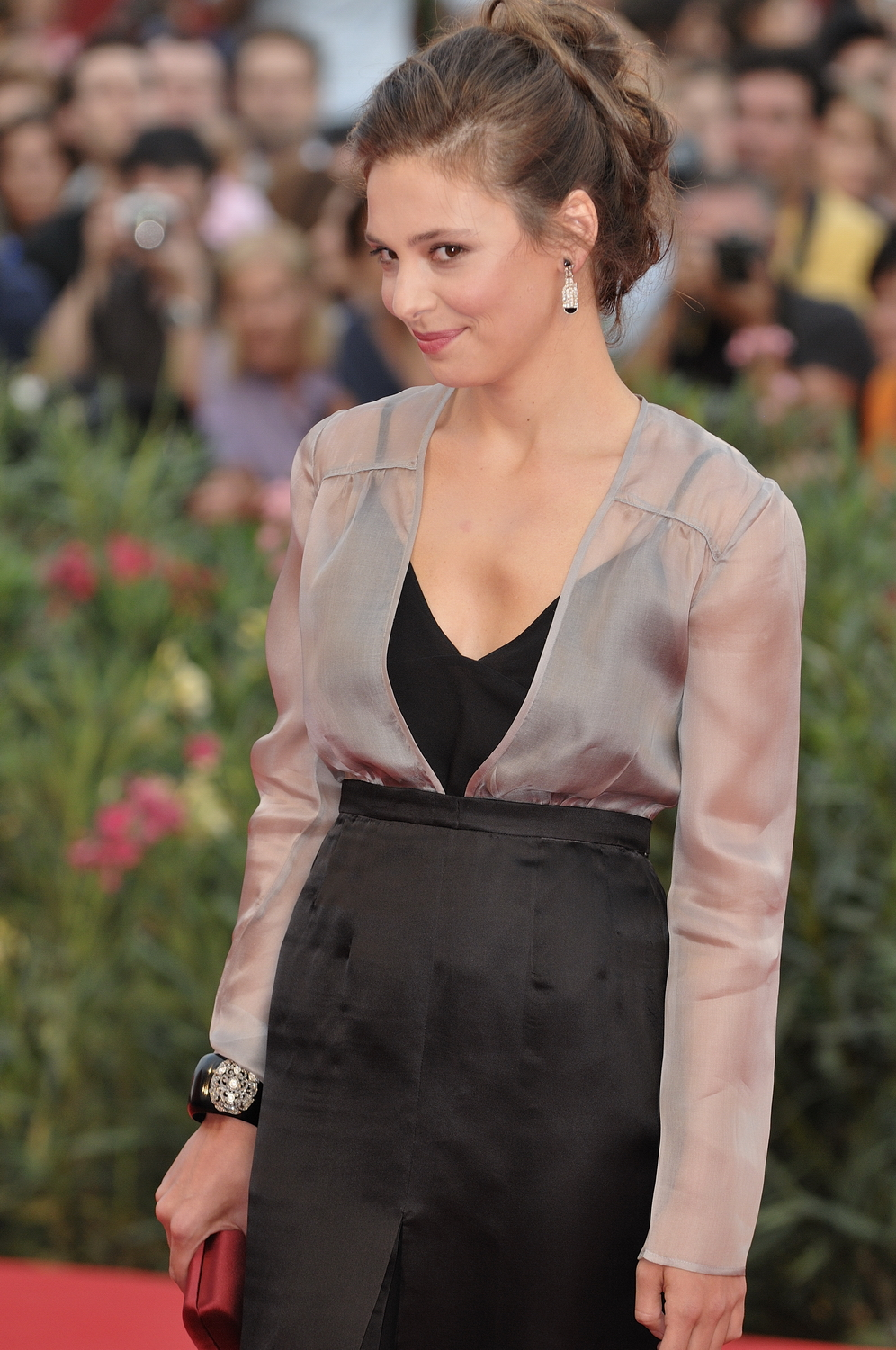 Jasmine Trinca at 2009 Venice Film Festival